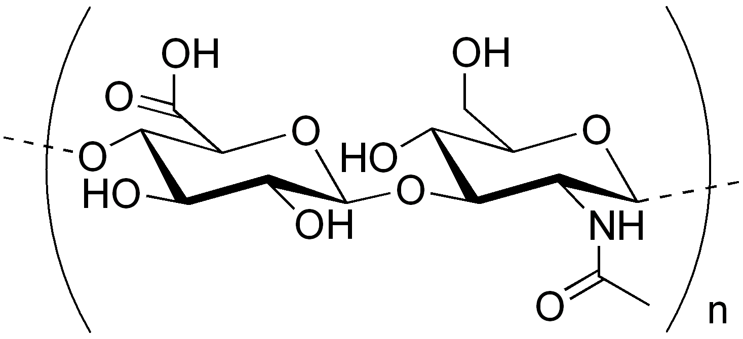 Chemical structure of hyaluronan